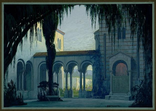 Scene scetches by Pietro Stroppa for the first production of Zandonais opera Giulietta e Romeo, Milan 1922 - 4. Chiostro del Convento